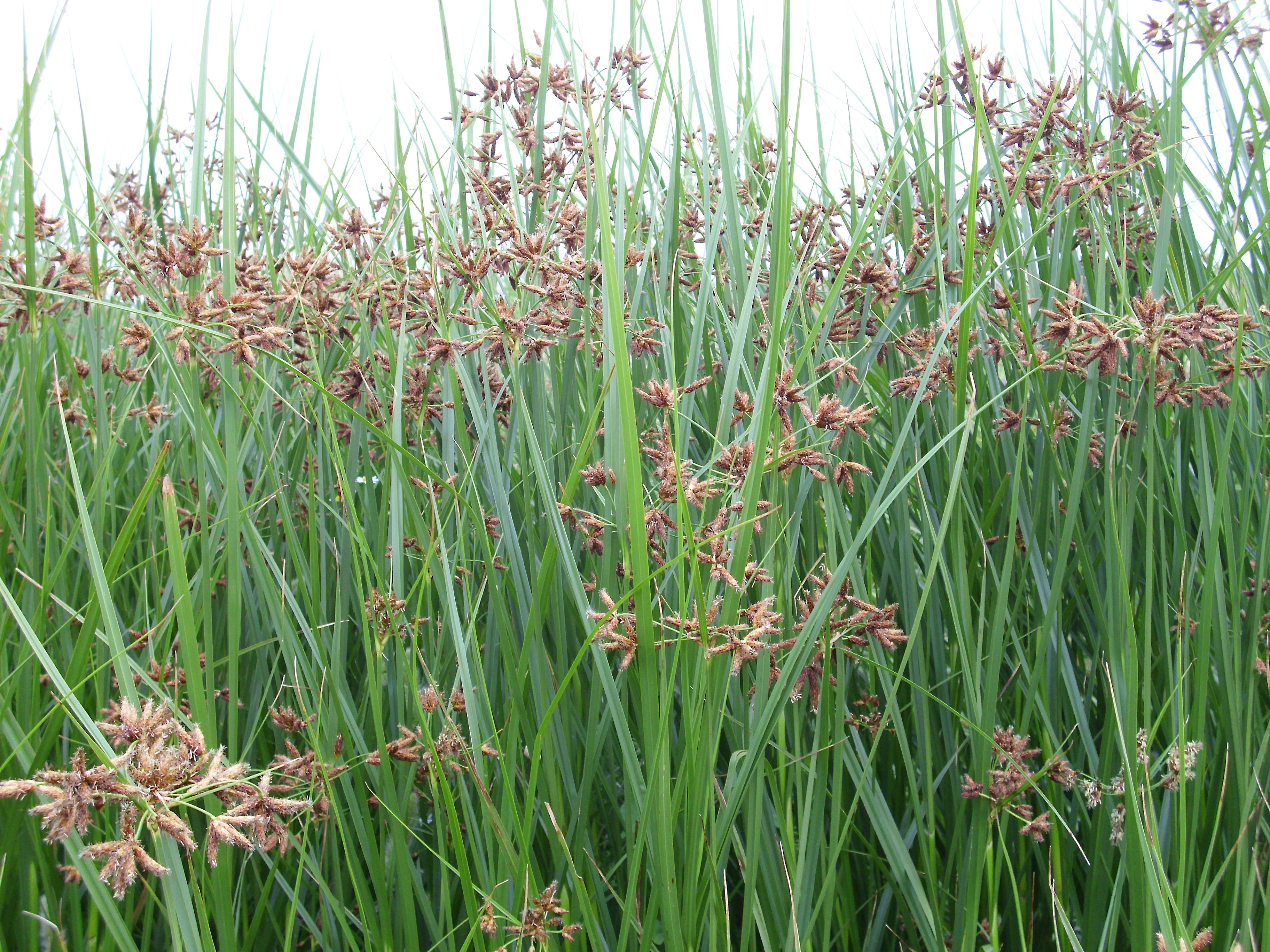 Cyperus longus habit, Campo de Calatrava, Spain